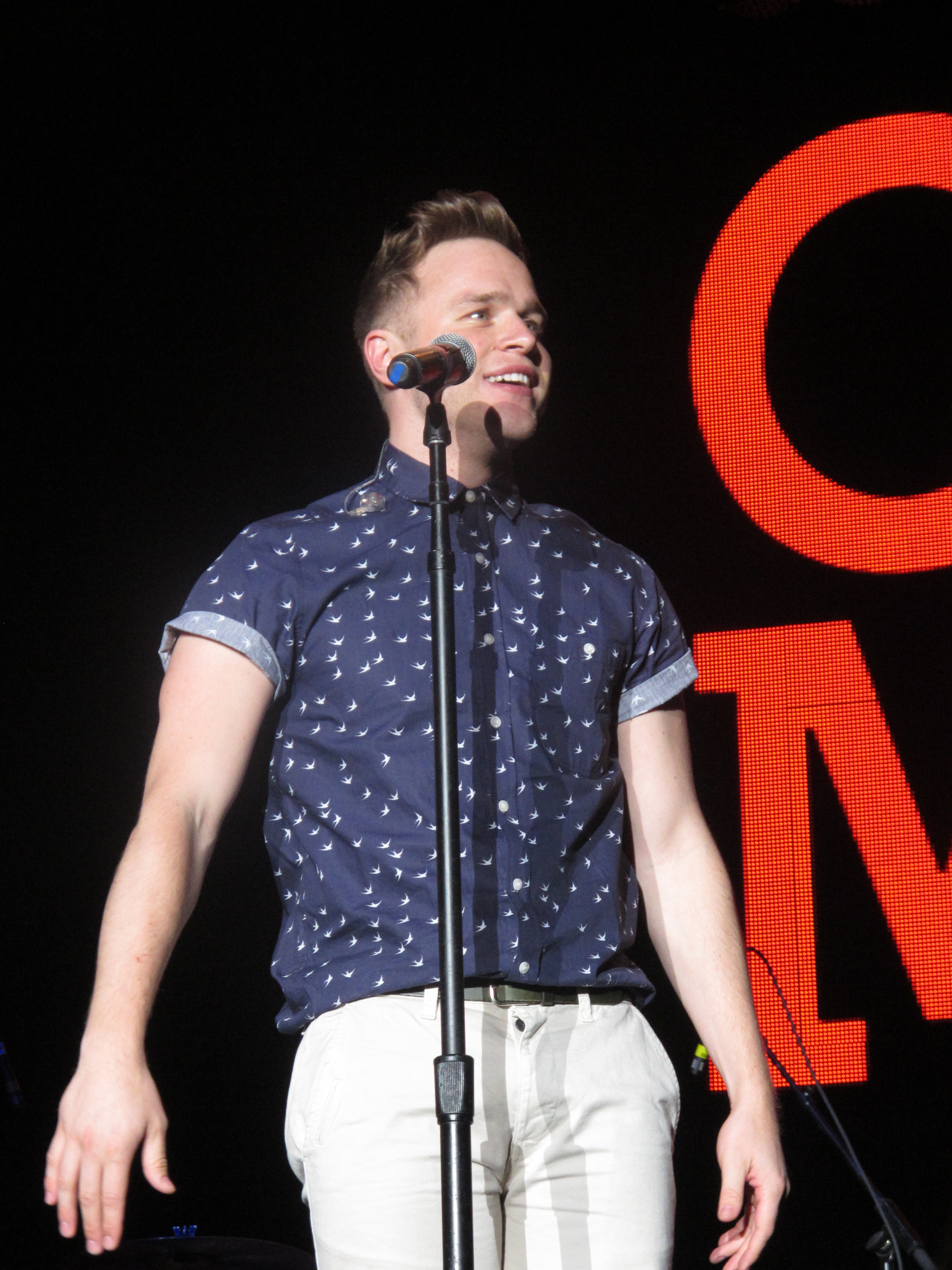 Olly Murs - 7188761519